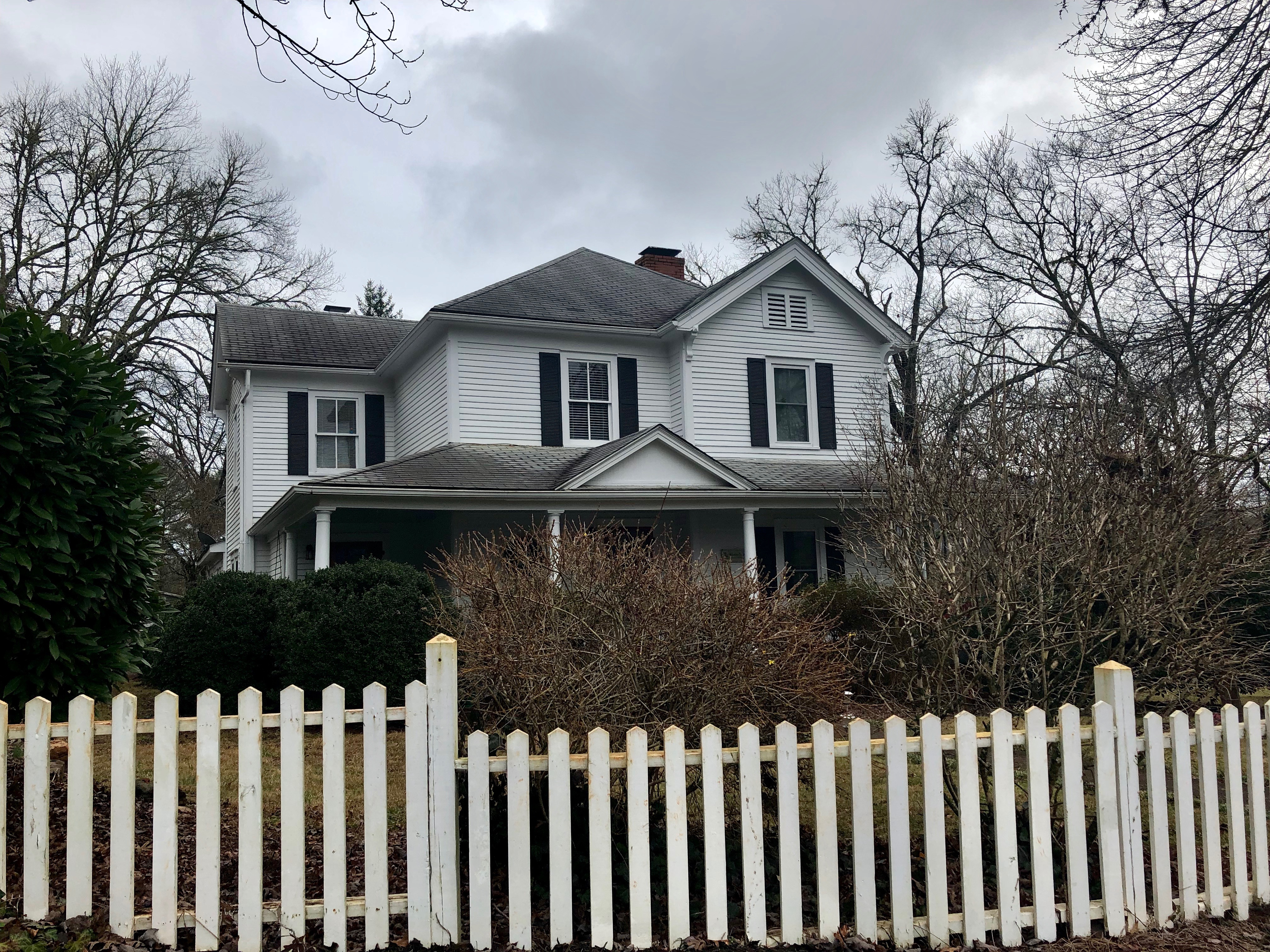 This is the historic Elisha Calor Hedden House, located on Buchanan Loop at Webster Road in the town of Webster, North Carolina. Constructed around 1910, the modest Queen Anne-style house was built at the end of the town’s heyday, as the county seat and courthouse were moved to Sylva only four years later. The largest remaining historic house in the town, the house was built by Hedden, whom moved to the region to work in the booming lumber industry in the early 20th Century. The house remains in use as a private residence, and was listed on the National Register of Historic Places in 1989.